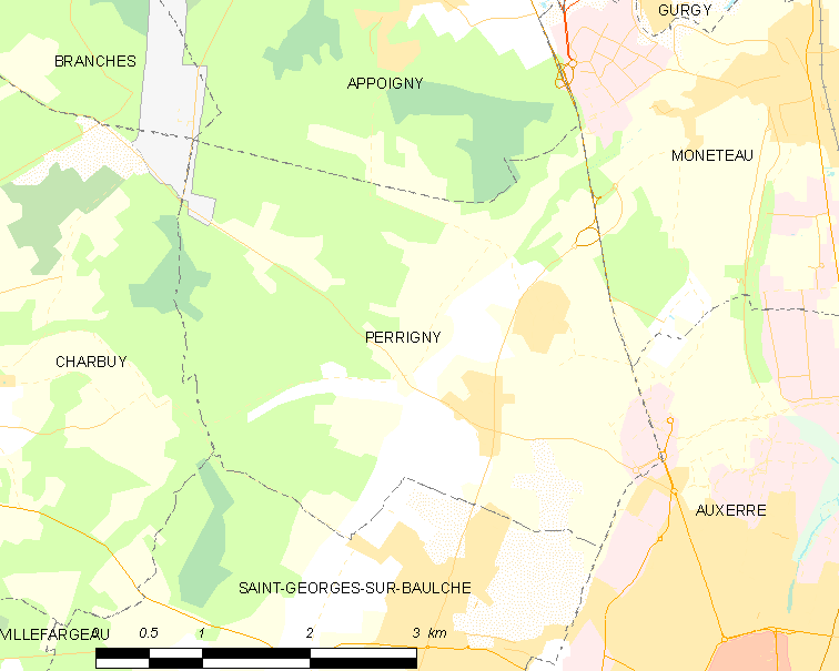 Map of French municipality Perrigny